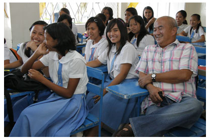 Tagum City Mayor Rey T. Uy together with some students of Tagum City National High School during the opening of the new building.